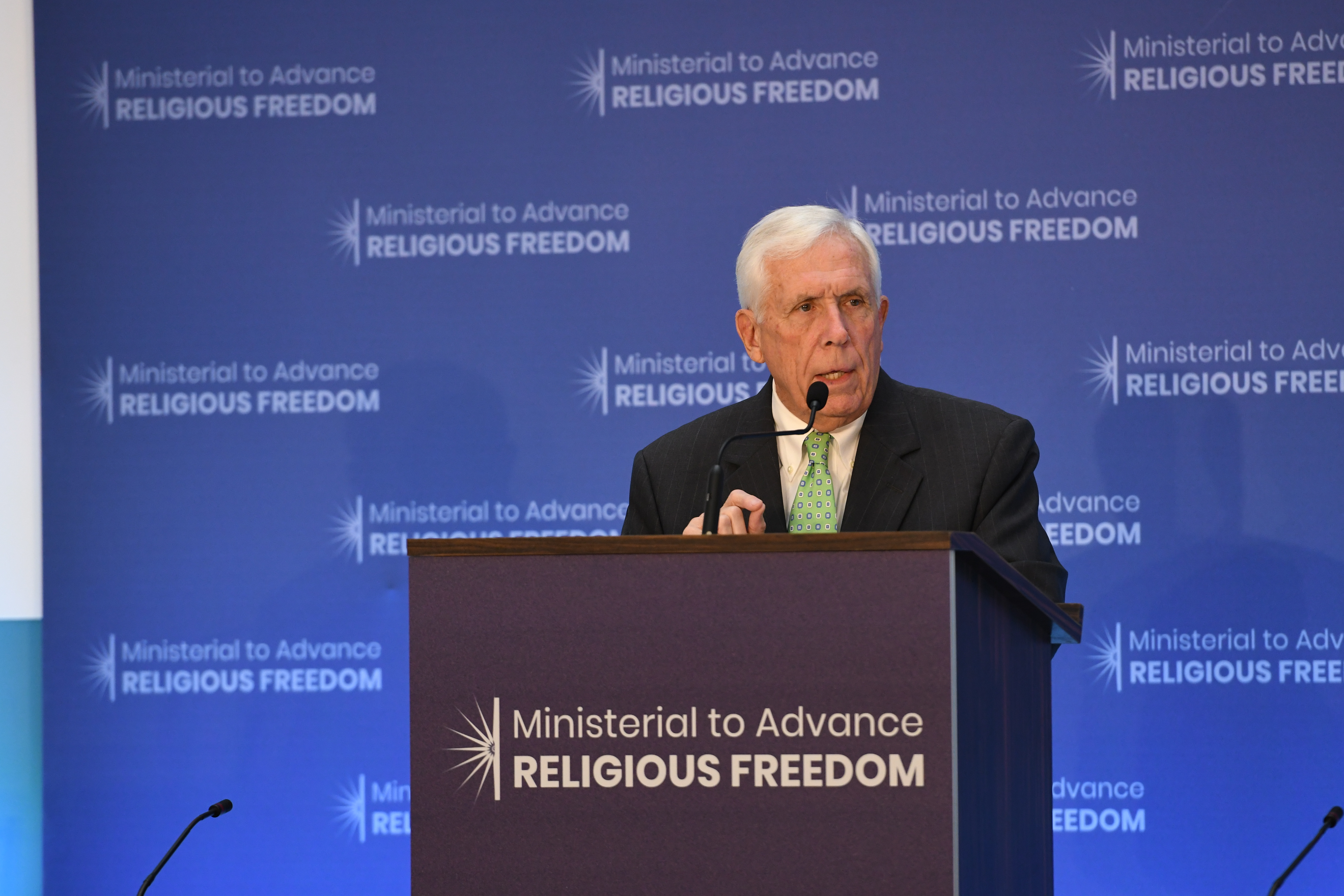 Former Congressman Frank R. Wolf gives remarks during the Ministerial to Advance Religious Freedom at the U.S. Department of State in Washington, D.C. on July 24, 2018.